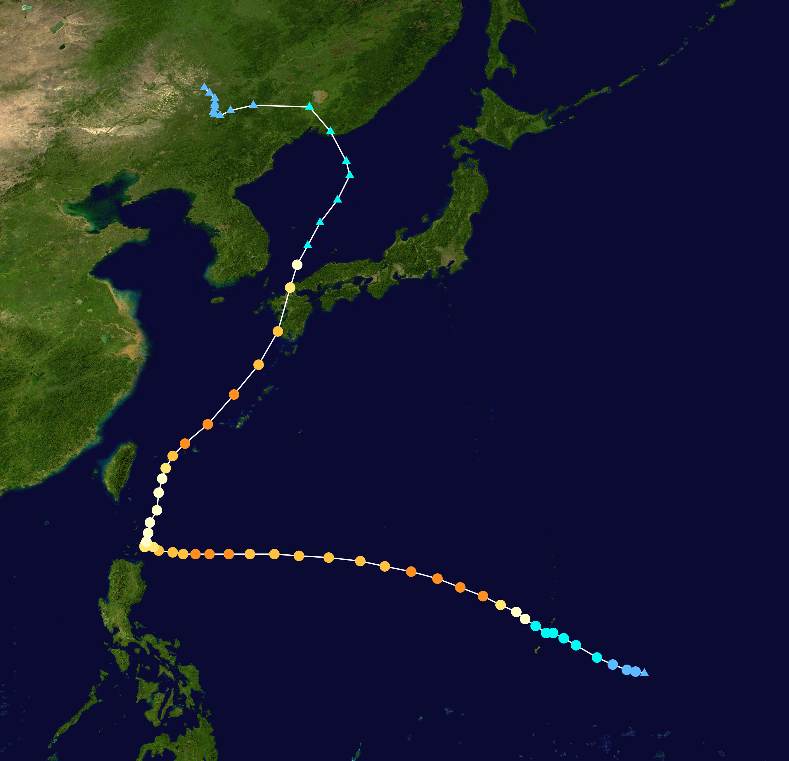 Track map of Typhoon Goni of the 2015 Pacific typhoon season. The points show the location of the storm at 6-hour intervals. The colour represents the storm's maximum sustained wind speeds as classified in the Saffir–Simpson scale (see below), and the shape of the data points represent the nature of the storm, according to the legend below. Saffir–Simpson scale Tropical depression≤38 mph≤62 km/h Category 3111–129 mph178–208 km/h Tropical storm39–73 mph63–118 km/h Category 4130–156 mph209–251 km/h Category 174–95 mph119–153 km/h Category 5≥157 mph≥252 km/h Category 296–110 mph154–177 km/h Unknown Storm type Tropical cyclone Subtropical cyclone Extratropical cyclone / Remnant low / Tropical disturbance / Monsoon depression